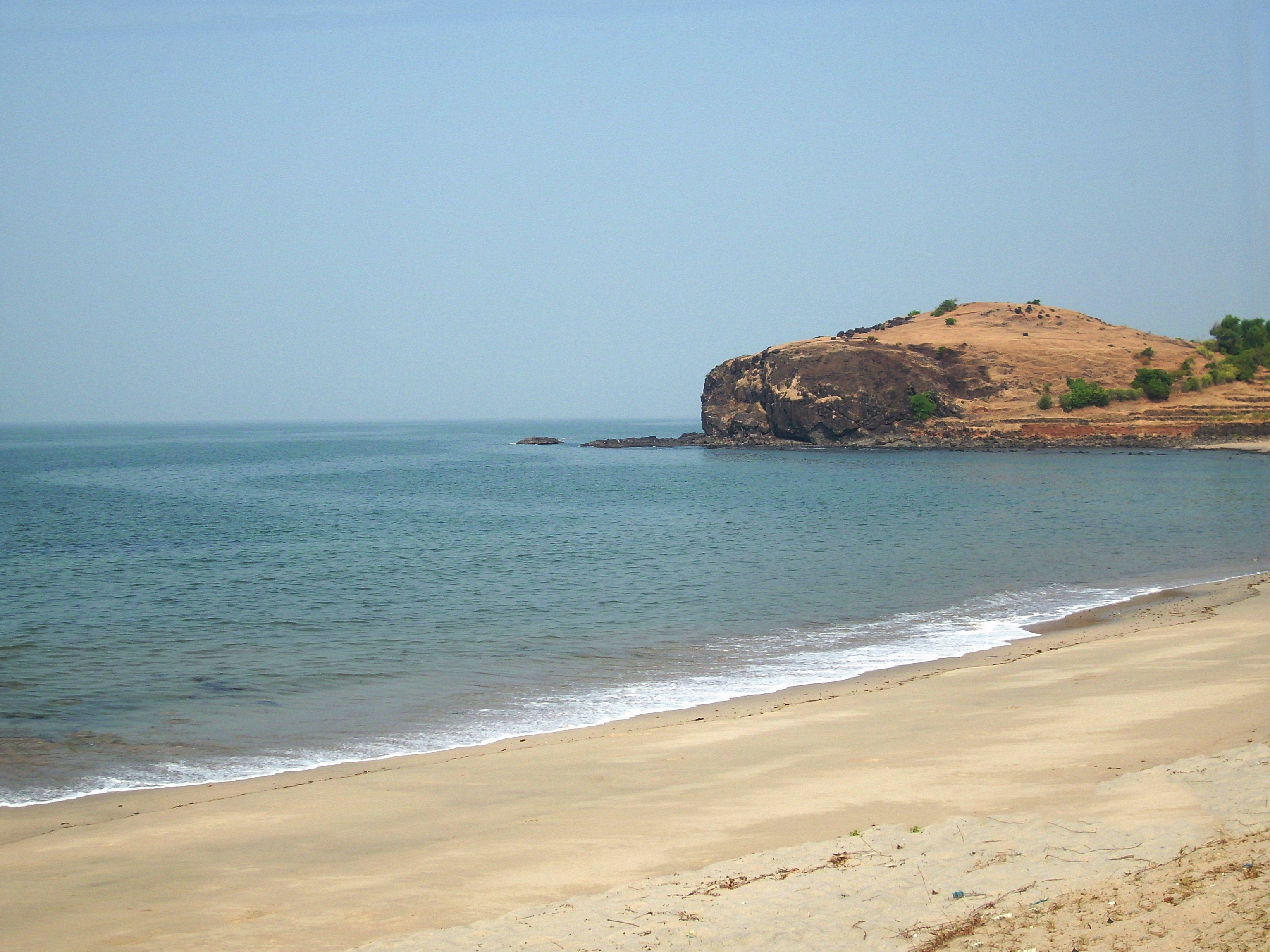 This picture is captured by author Pankaj Dhande and his friends during the trip to Diveagar